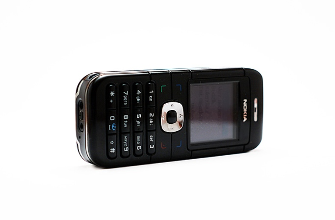 Nokia 6030